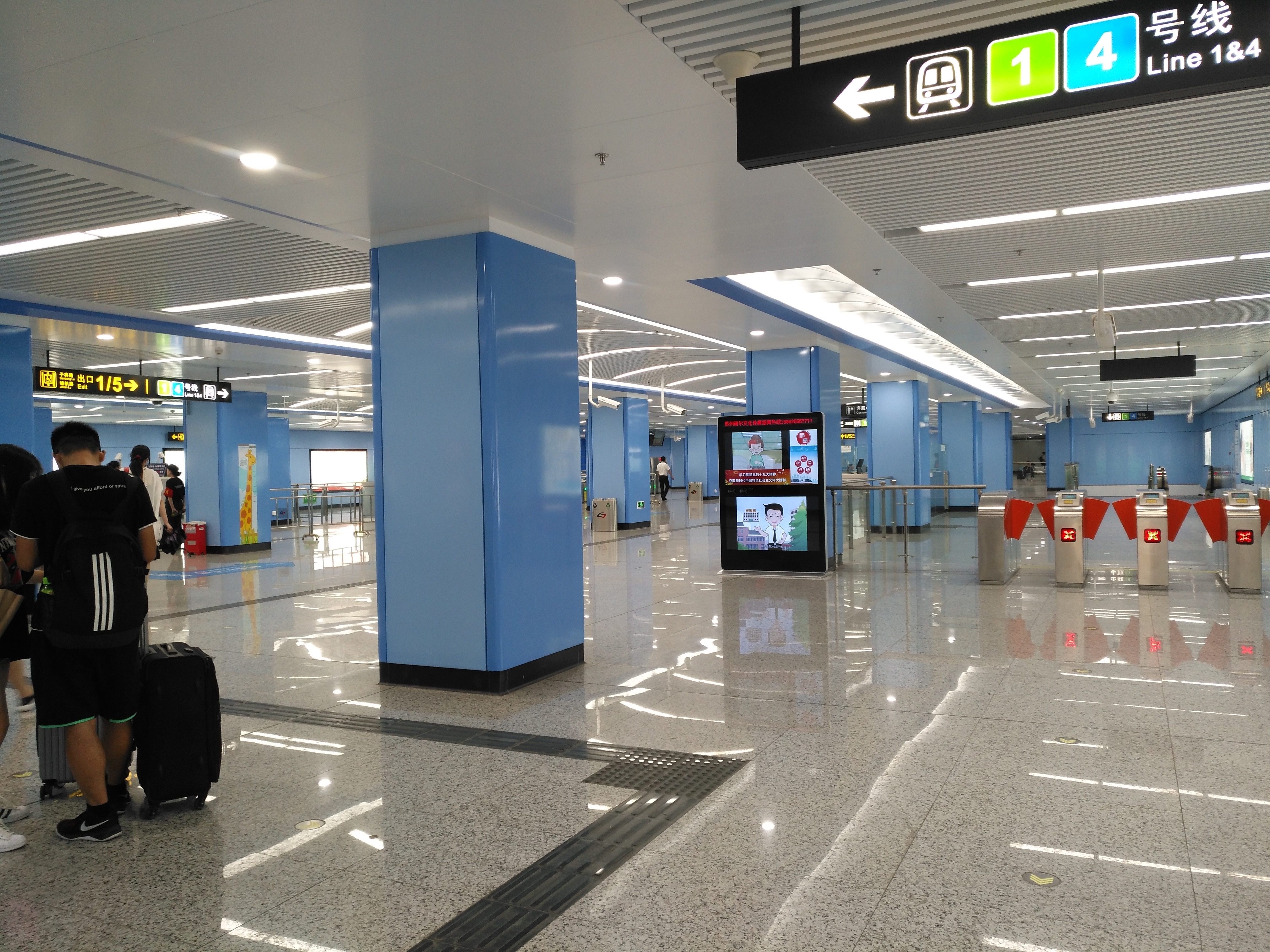 Station Hall of Leqiao Station of Suzhou Rail Transit, which opened in April 2017.